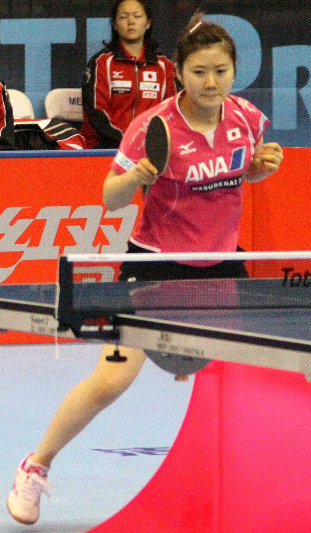 Ai Fukuhara during the Table Tennis Pro Tour Grand Finals at the ExCeL London on November 27-28, 2011.